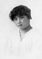 Soong May ling Wesleyan college student photo taken around 1910